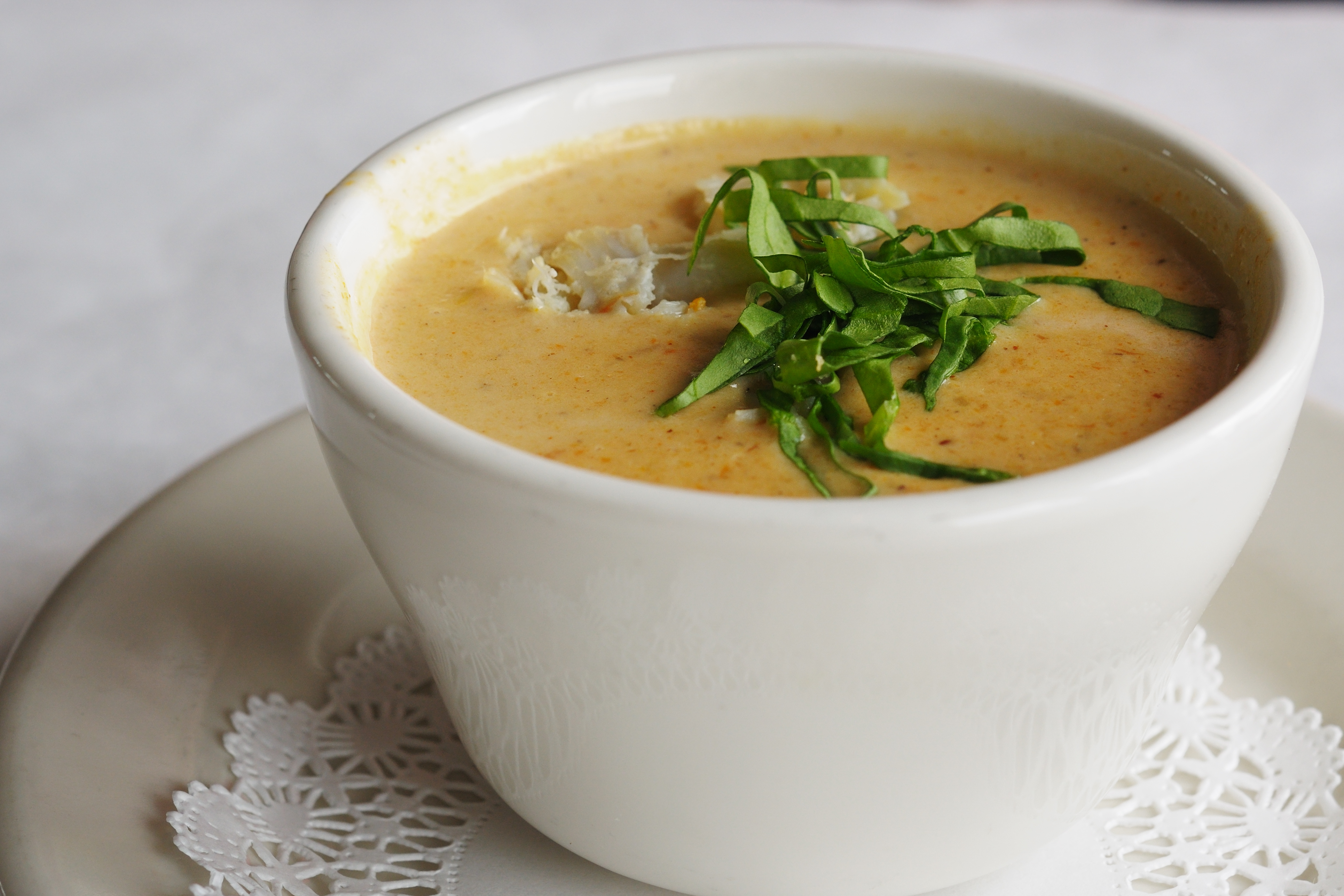 Crab bisque with Darien crab meat at Coastal Kitchen